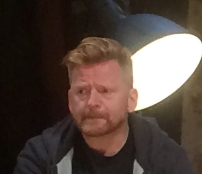 Christopher Oram in 2018 on the set of Red at the Wyndham's Theatre